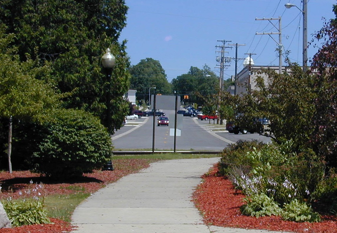 Downtown Cadillac.